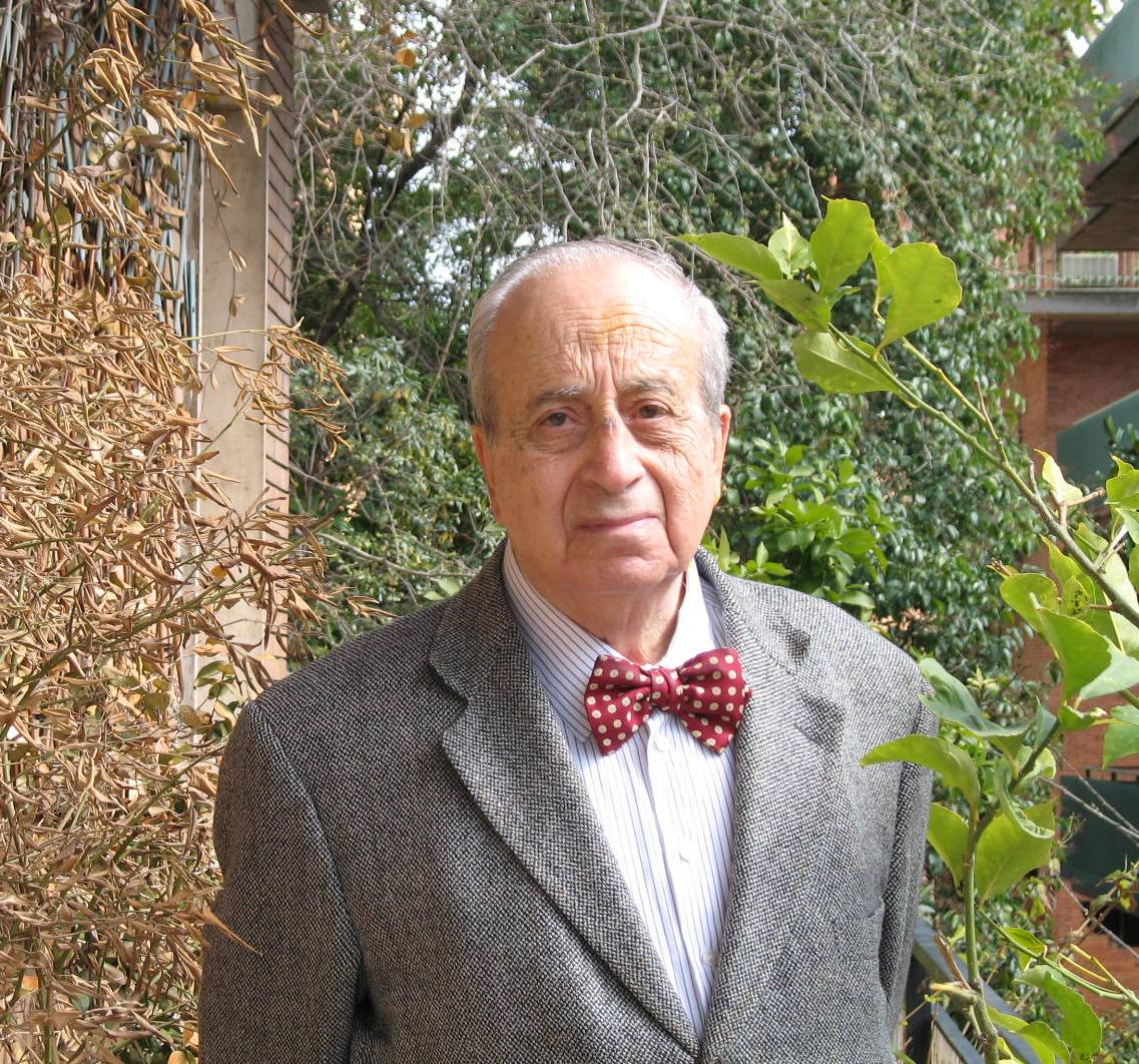 Fabio Della Seta at 84, in his home in Rome, Italy.